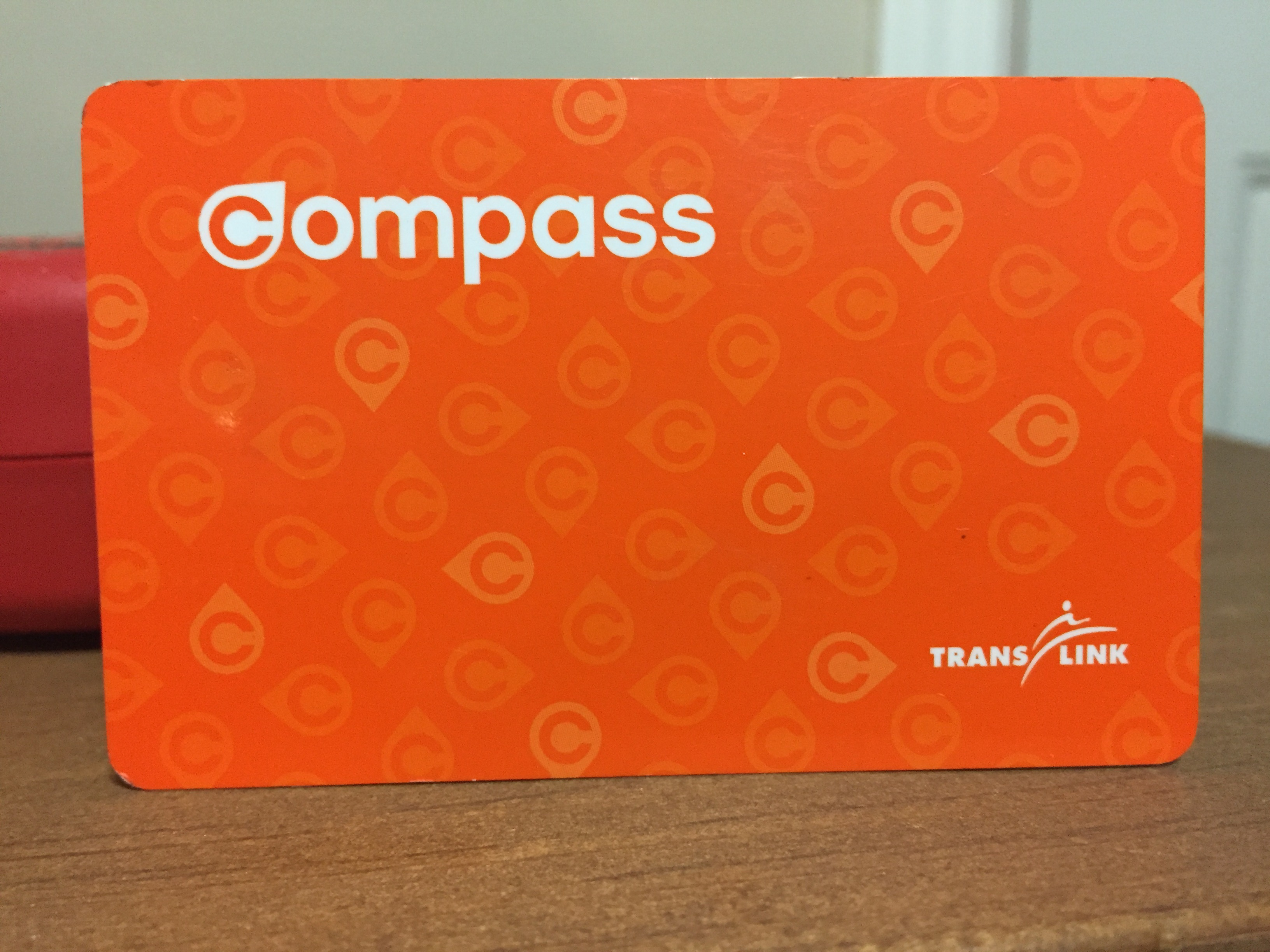 Orange colour Concession Compass Card by TransLink